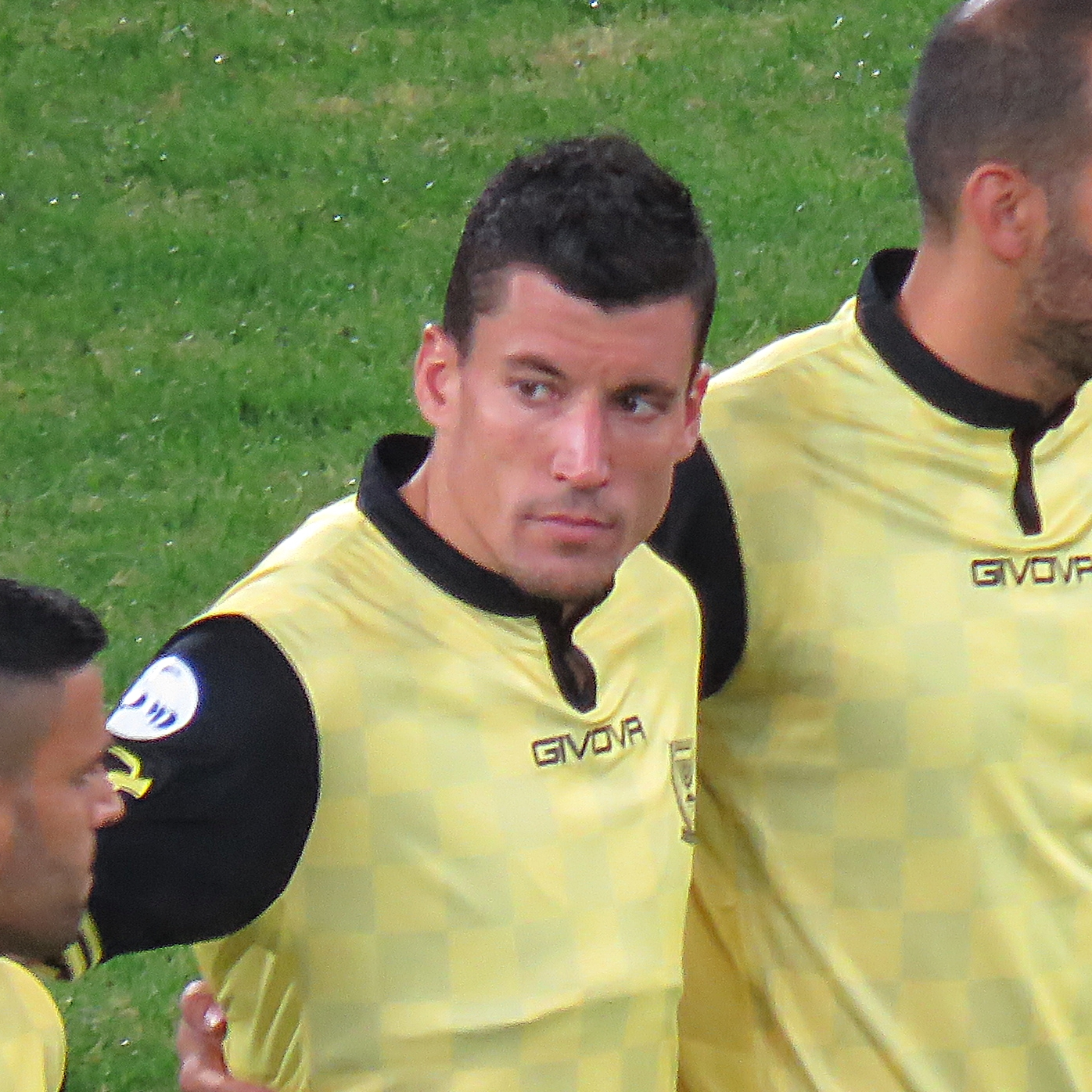 December 2016